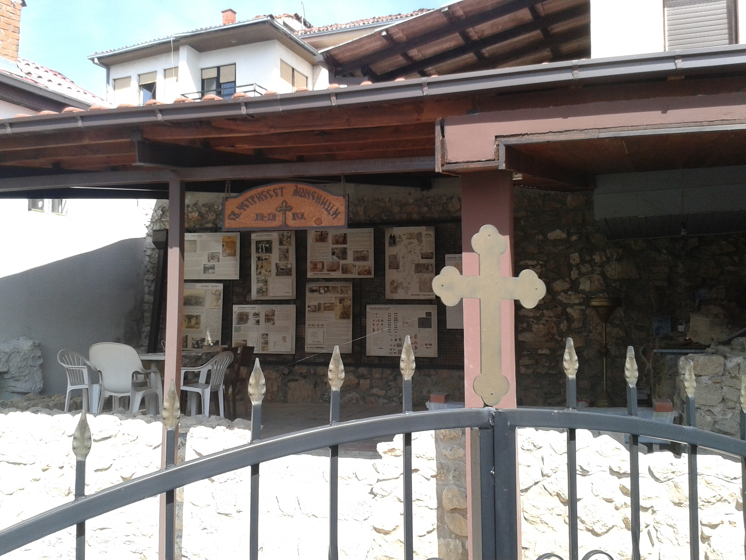 Sts. Forty Martyrs of Sebaste Church in Ohrid